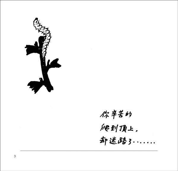 Aying_drawing and saying